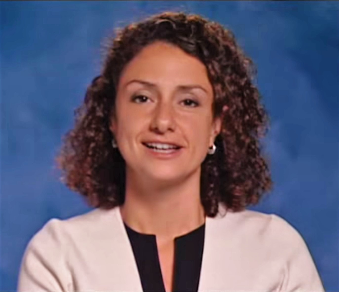 Lila Ibrahim of Intel talks about changing opportunities in engineering, what employers are looking for, and how to prepare yourself for the marketplace.